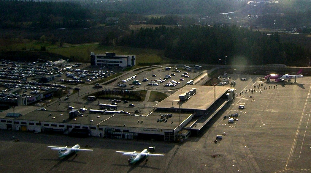 Aerial view of Sandefjord Airport, Torp. On the ground is one Wizzair A320 and two Widerøe Dash-8-300s.